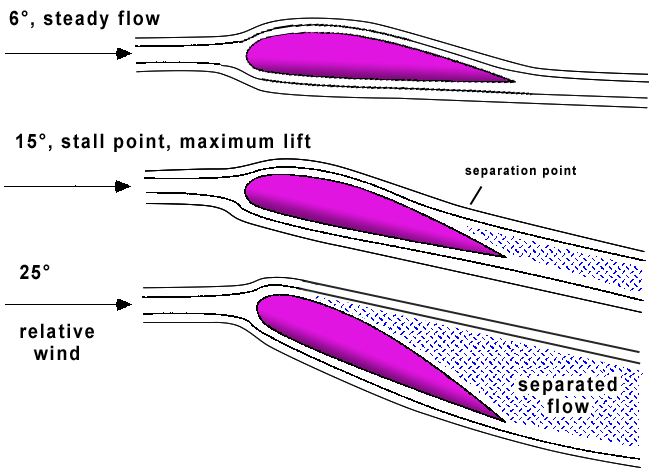 Stall formation